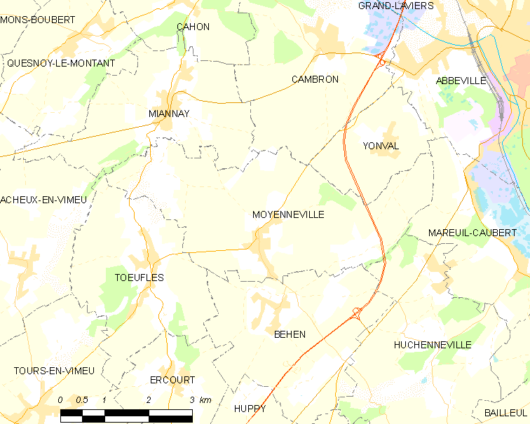 Map of French municipality Moyenneville